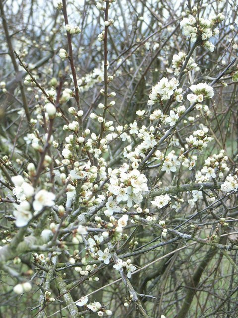 Blackthorn blossom